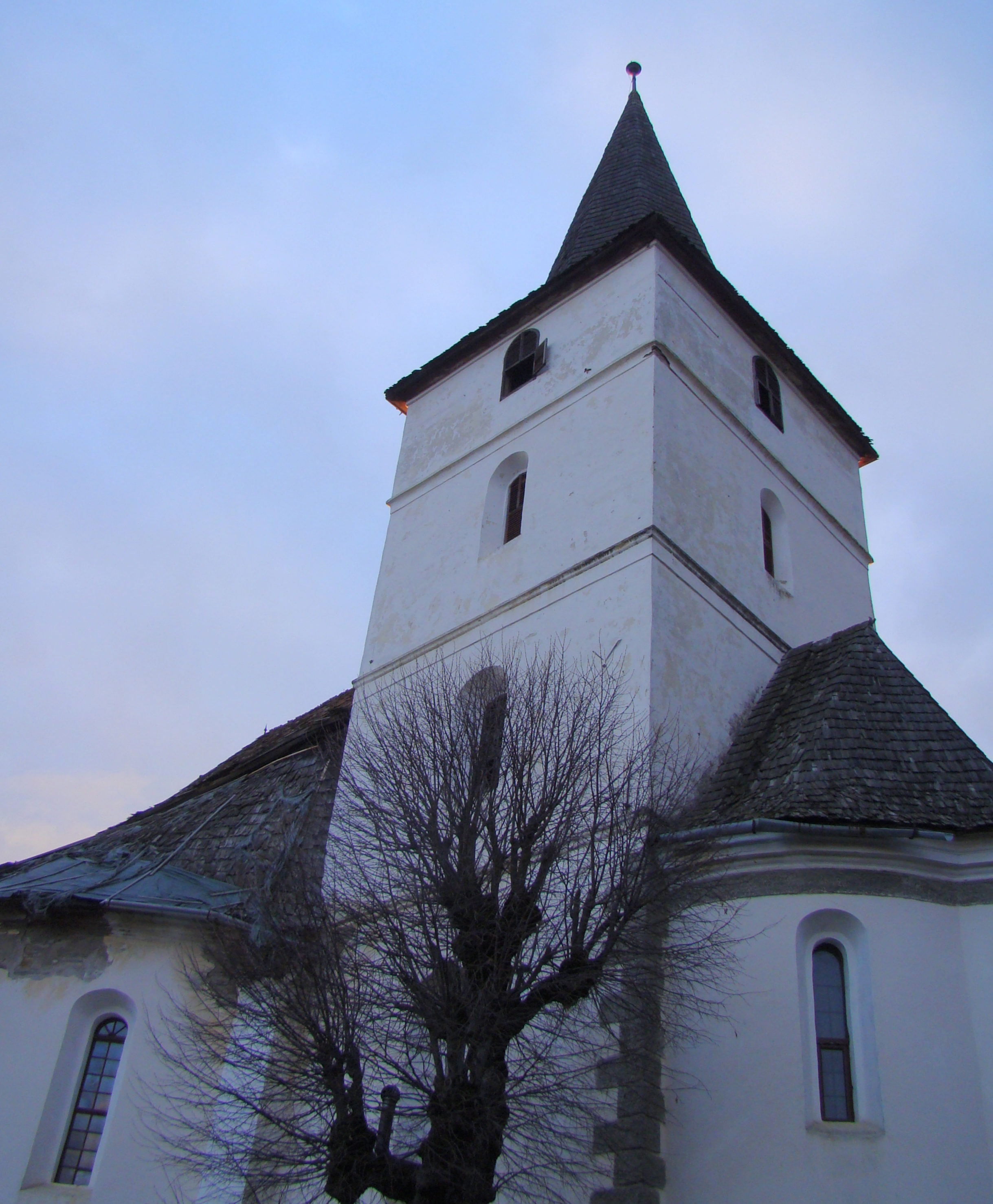 Lutheran church in Monariu, Bistrița-Năsăud county, Romania